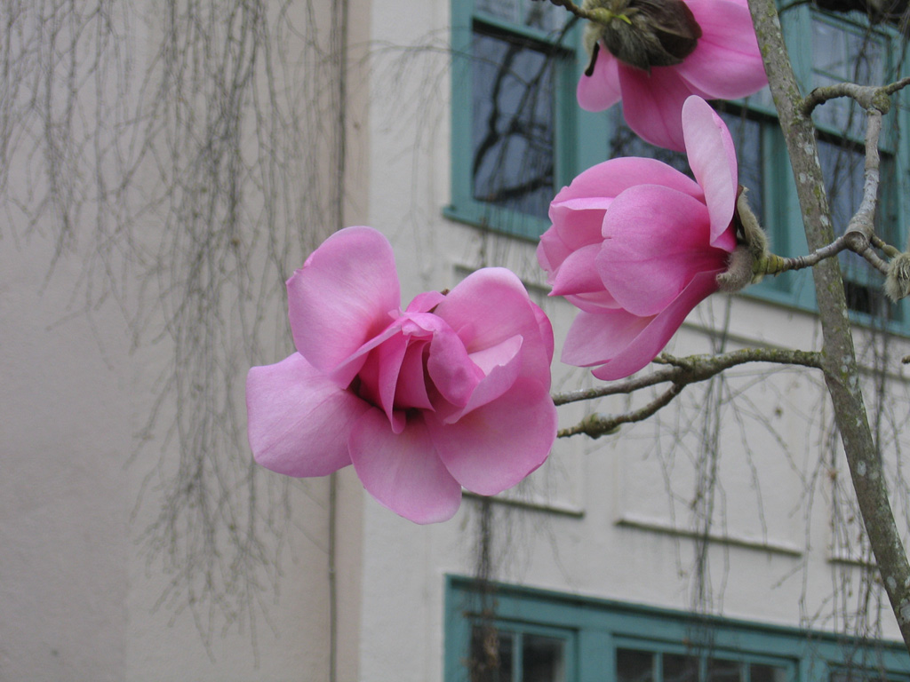 I was struck by the simple beauty of these magnolia blossoms which embodied the lusciousness of flesh. Because of the cup-and-saucer shape of the flower, and because of the colour, this is almost with certainty Magnolia campbellii, although it might be a hybrid with a lot of campbellii blood.